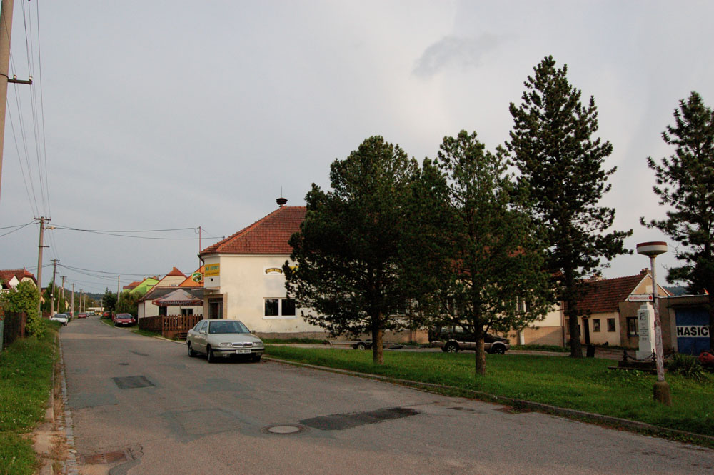 Pub in Klepačov